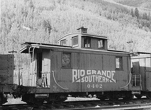 Caboose of the Rio Grande Southern narrow gauge railway. Telluride, Colorado.